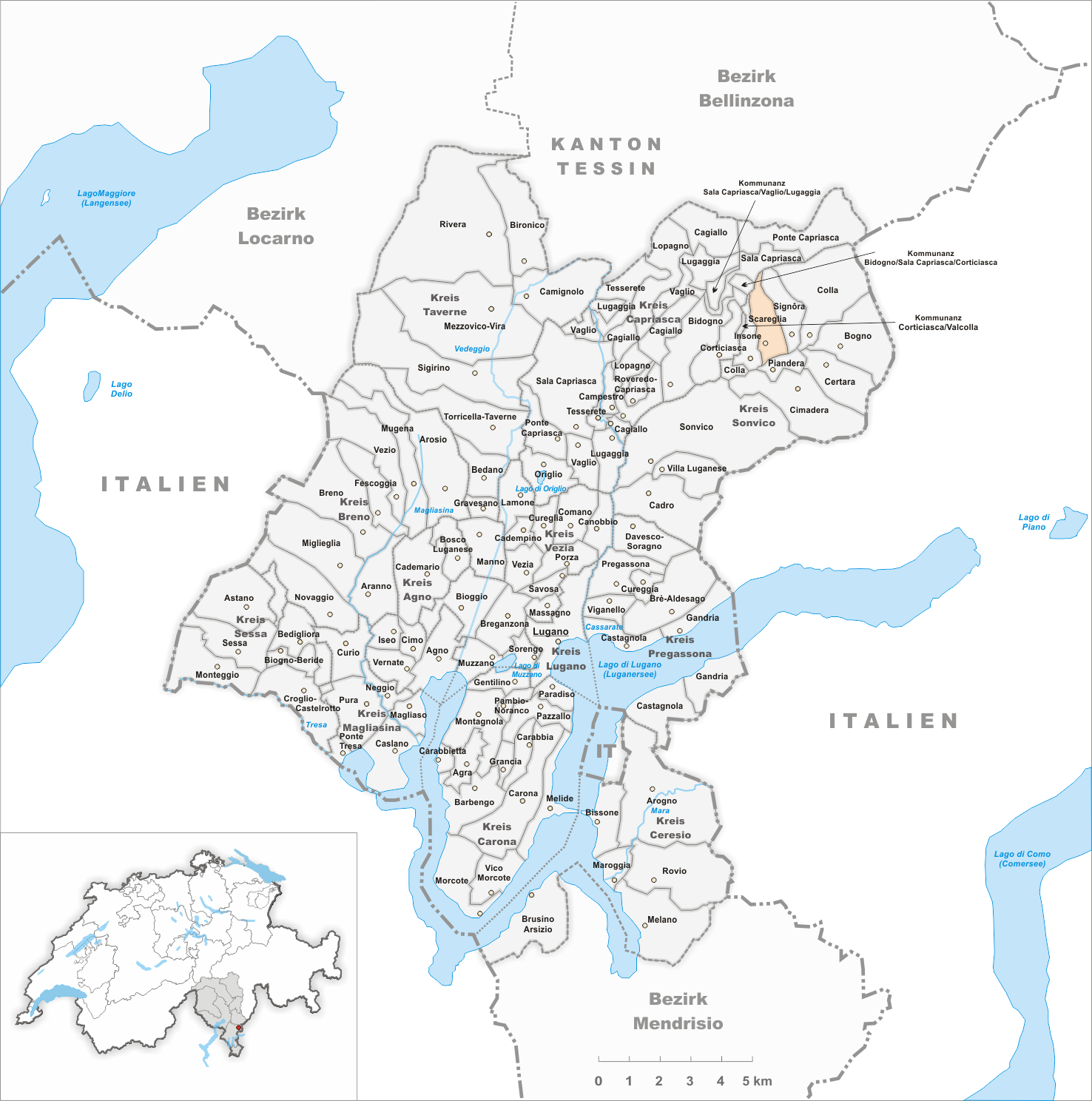 Municipality Scareglia Artist: Tschubby